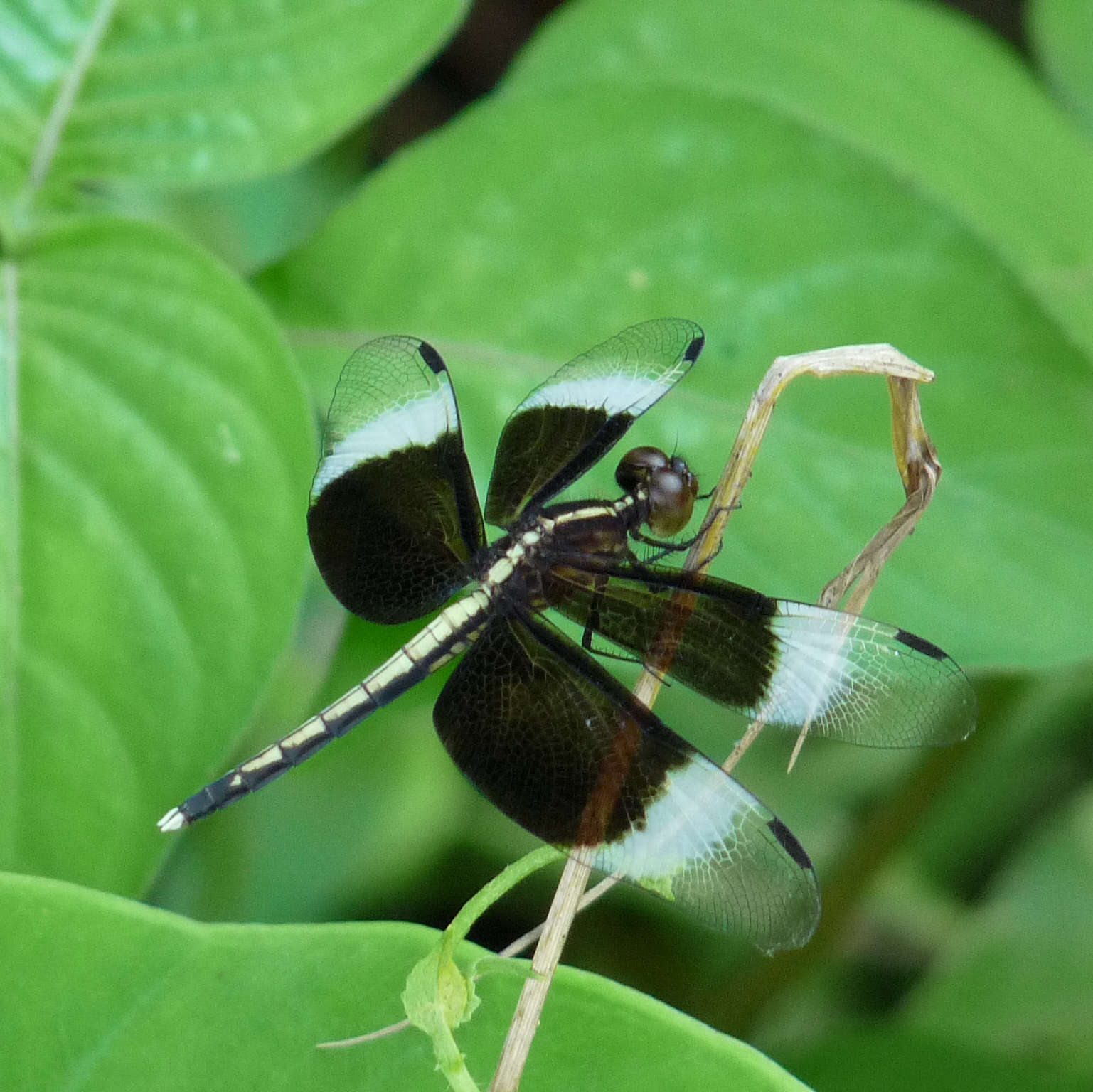 Neurothemis tullia male Neurothemis tullia, Pied Paddy Skimmer, is a species of dragonfly found in south and south-east Asia. In males, both the forewings and hindwings have black colouration from the base of the wings to about half way. There is also a white patch following the black. There is a cream dorsal line with black edging running from the prothorax to S-8 on the abdomen, which disappears as it matures. The synthorax is brown/cream and darkens with age. S9-10 are black, caudal appendages white. The eyes are cherry red dorsally and green at the base. The female is very similar to the male, except for the wings. The abdomen is also stouter. The white patch on the wings becomes more prominent as it ages. Taken at Kadavoor, Kerala, India.